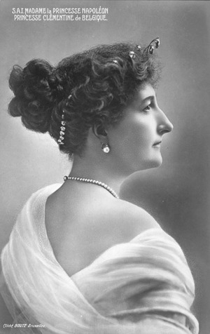 Клементина Бельгийская